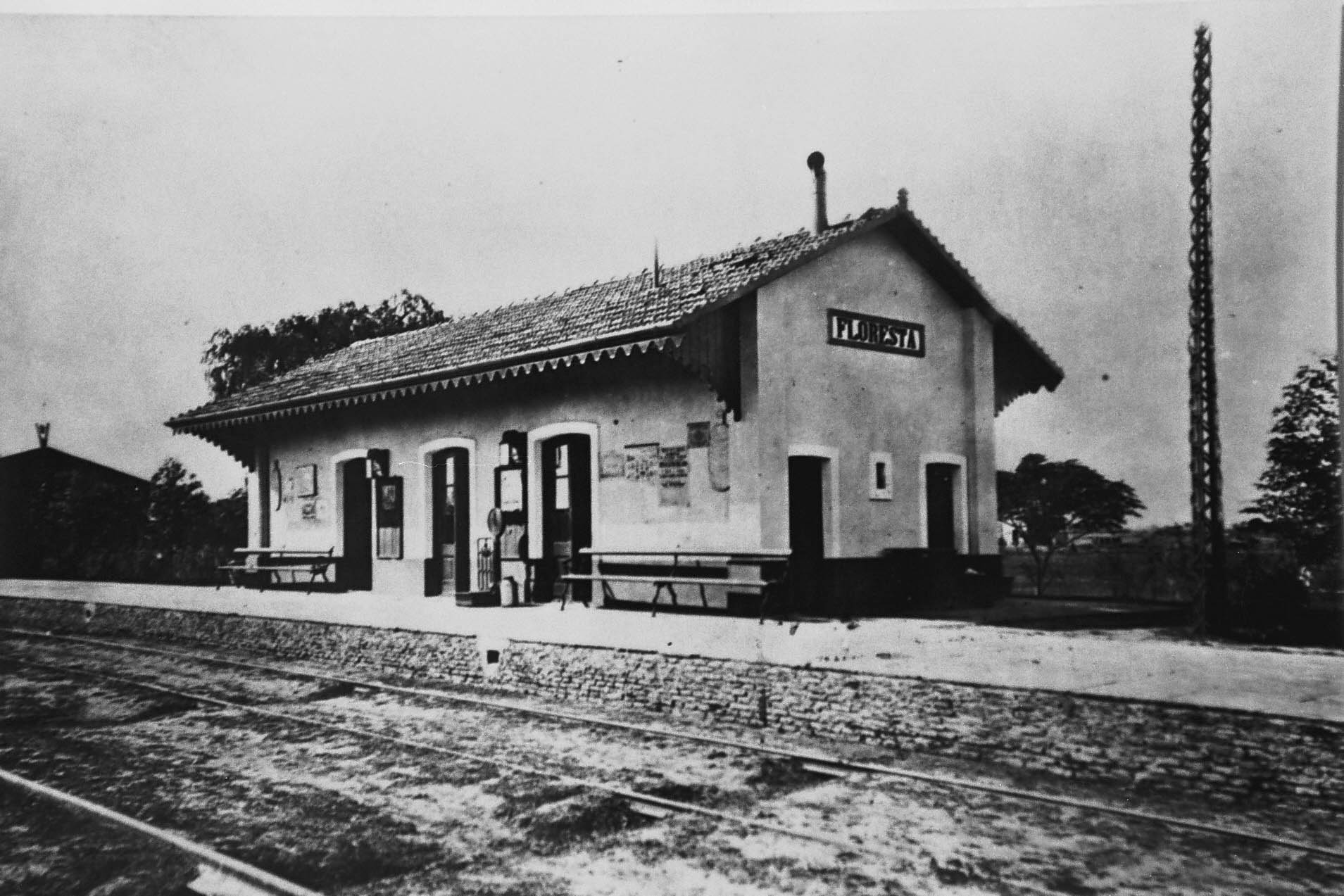 La Floresta station of Buenos Aires Western Railway. It was the first terminus of the line, being demolished in 1869.